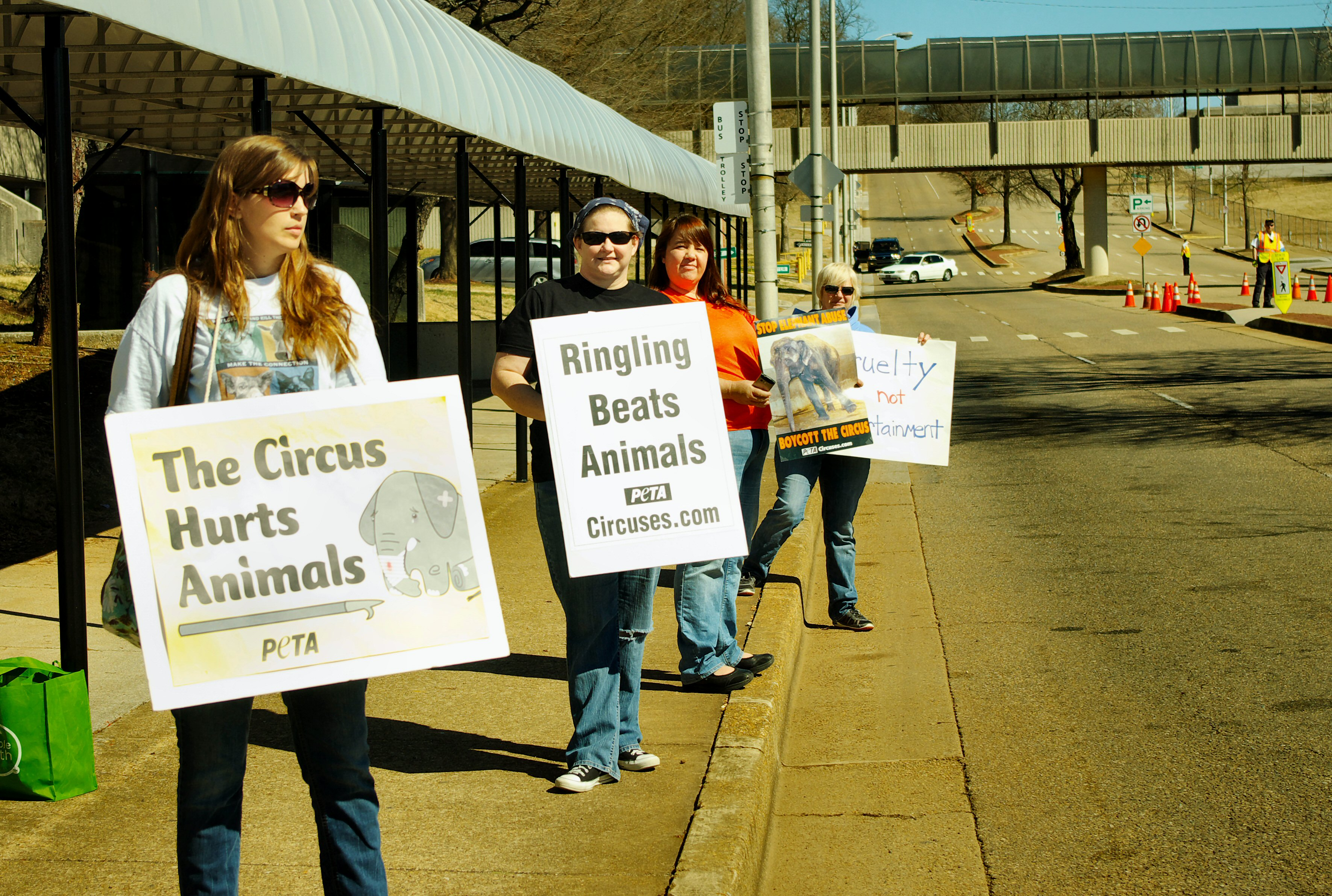 Activists for the People for the Ethical Treatment of Animals (PETA) protest outside the Ringling Brothers Barnum and Bailey Circus at the Civic Coliseum in Knoxville, Tennessee, United States. The rally was held to protest the circus's treatment of animals, especially elephants. The signs read "The circus hurts animals," "Ringling Beats Animals," "Boycott the circus," and "Cruelty is not entertainment."